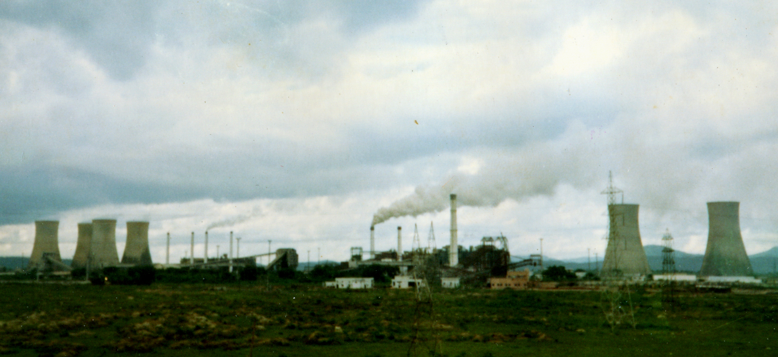 Kothagudem Thermal Power station at Paloncha in Khammam district